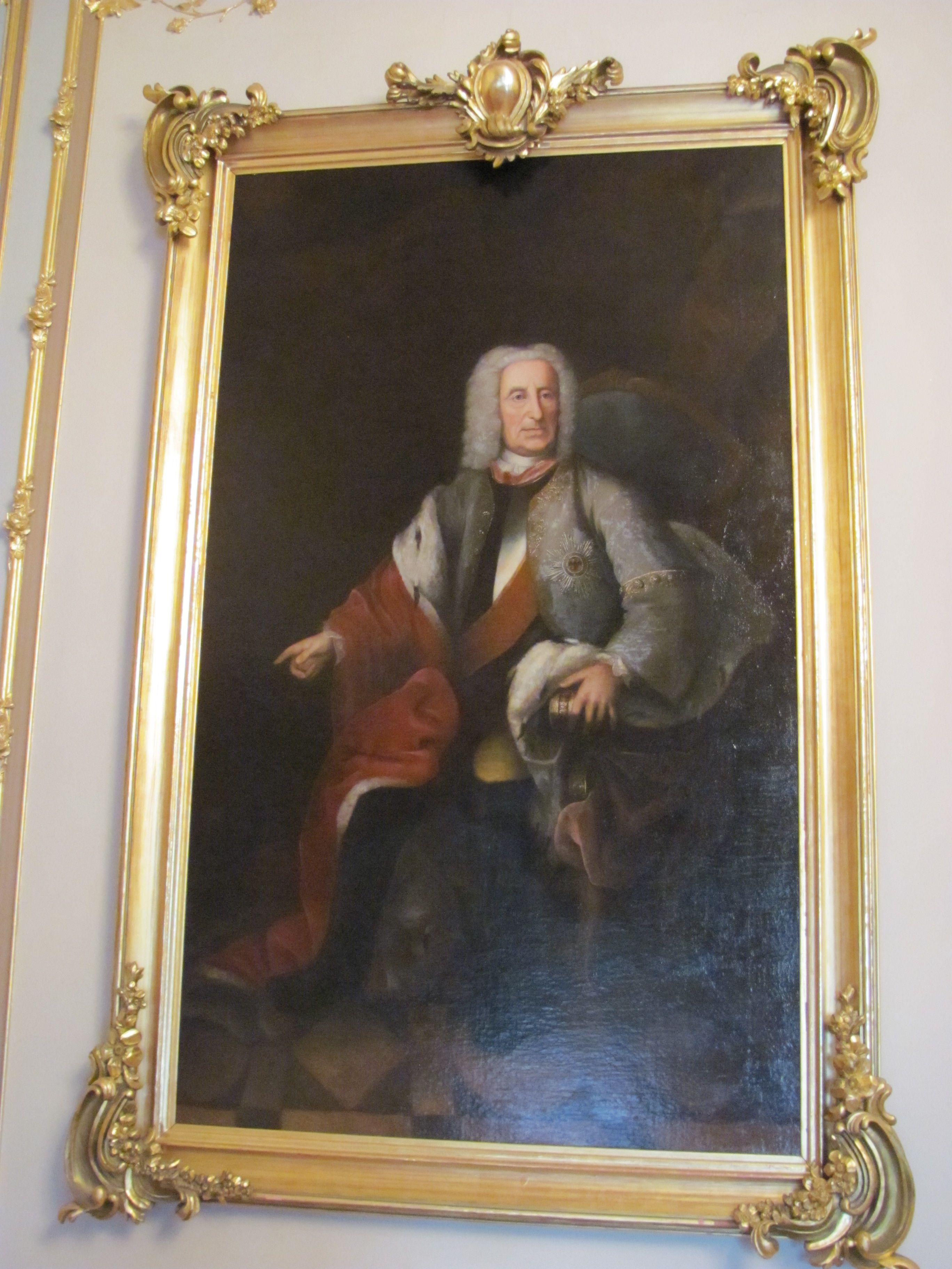 Count Johann Reinhard III von Hanau - Painting in the Historic Museum of Hanau